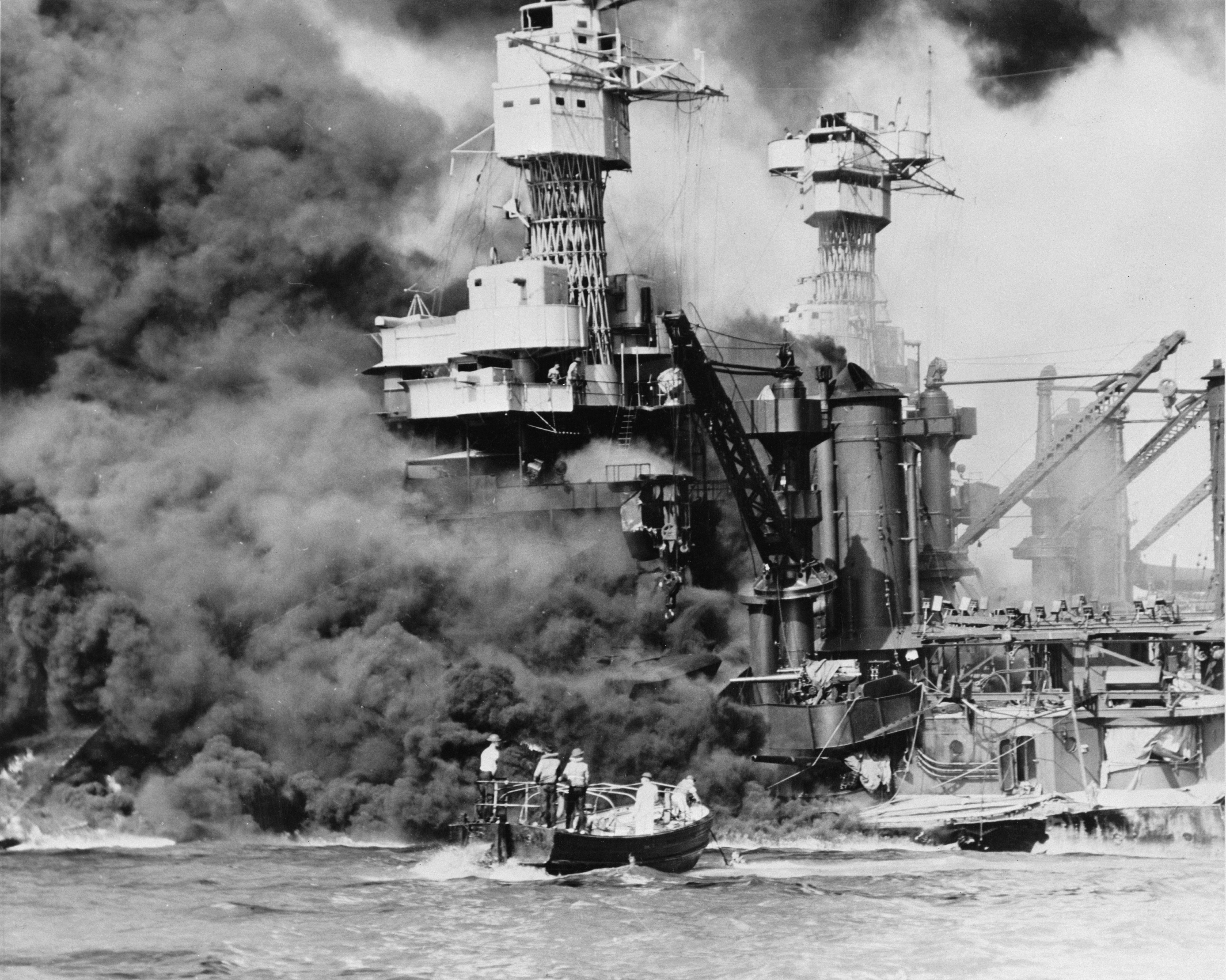 Pearl Harbor, Hawaii. A small boat rescues a seaman from the 31,800 ton USS West Virginia burning in the foreground. Smoke rolling out amidships shows where the most extensive damage occurred. Note the two men in the superstructure. The USS Tennessee is inboard.